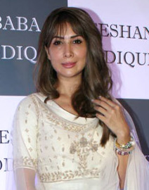 Kim Sharma at Baba Siddique 2019 Iftaar party